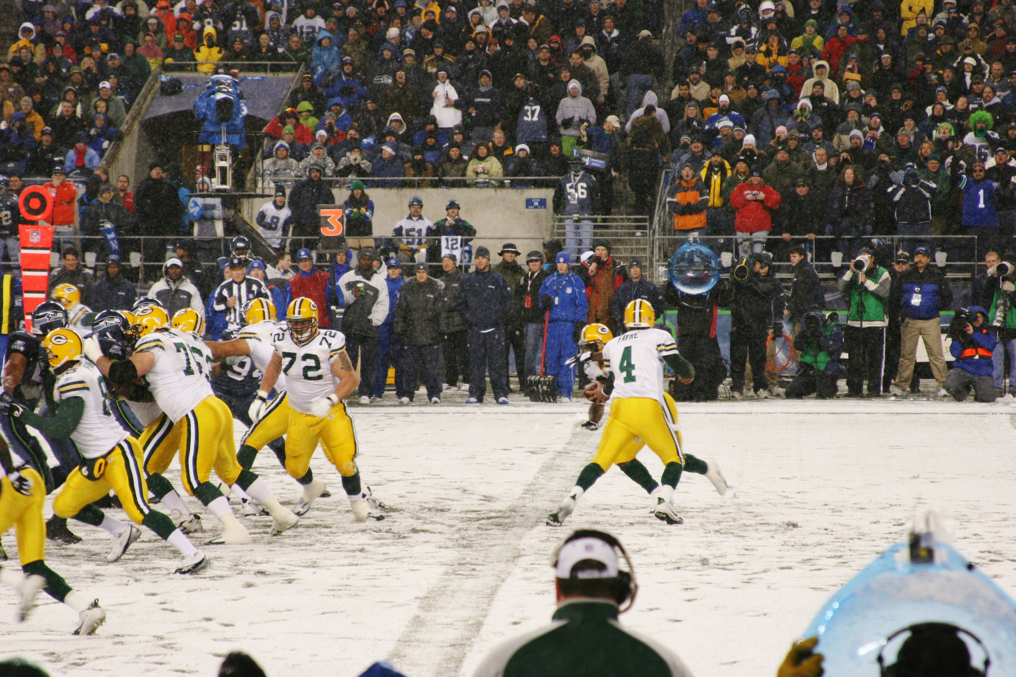 Brett Favre hands off the ball to a Green Bay Packers running back in the November 27, 2006 Monday Night Football game vs Seattle Seahawks at Qwest Field, Seattle, WA.